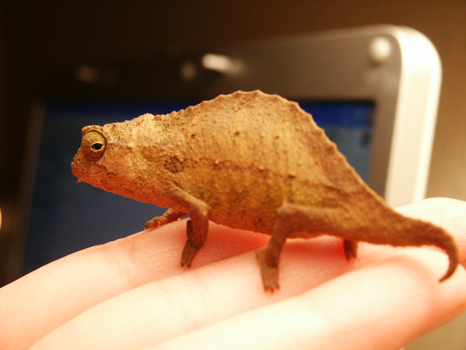 Species: Rhampholeon brevicaudatus From Wiki:en, originally created and uploaded by [user:Fender 01] Original tag: {PD-self}